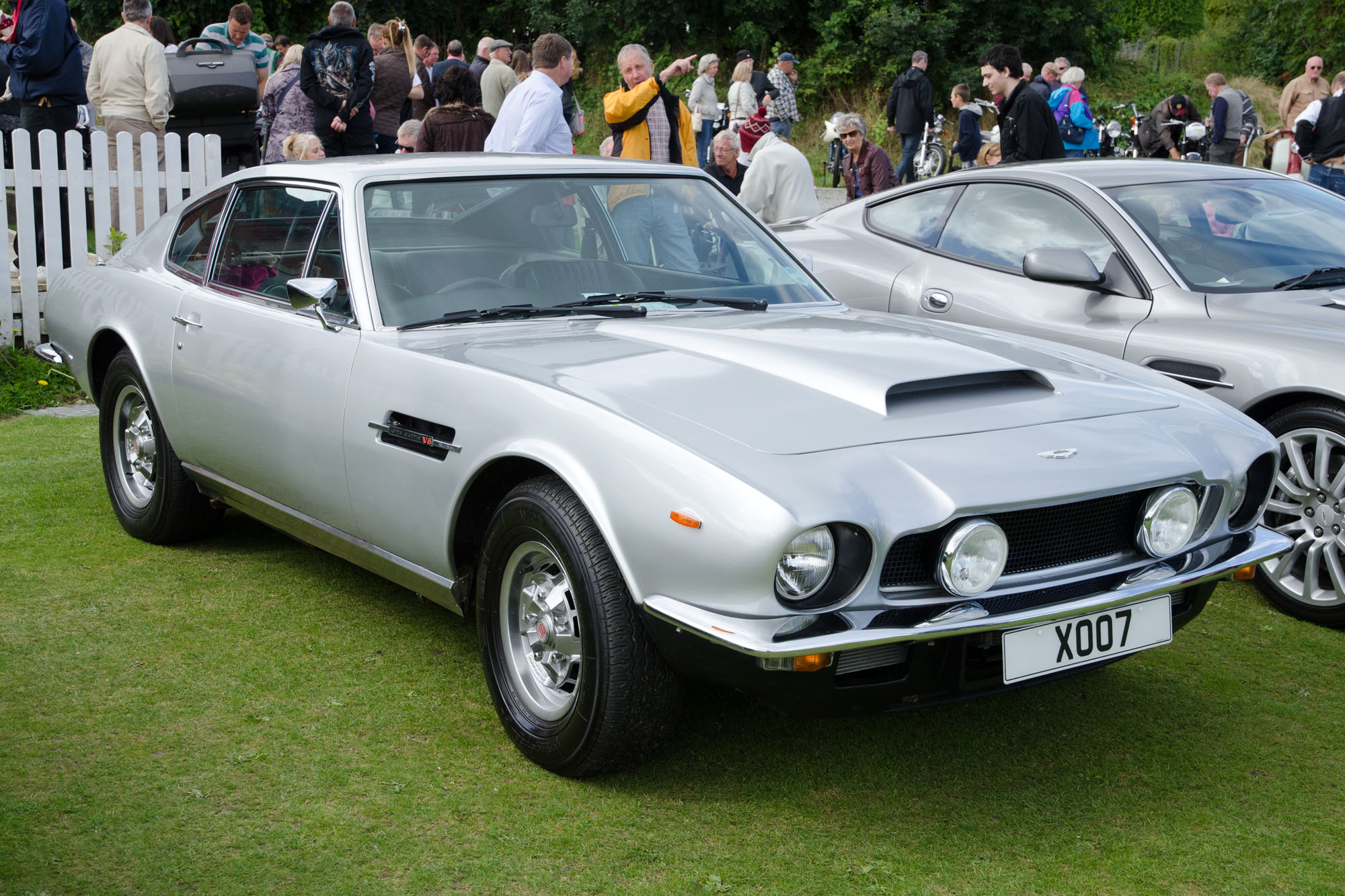 Burley in Wharfedale Classic Vehicle Show 17/08/2014